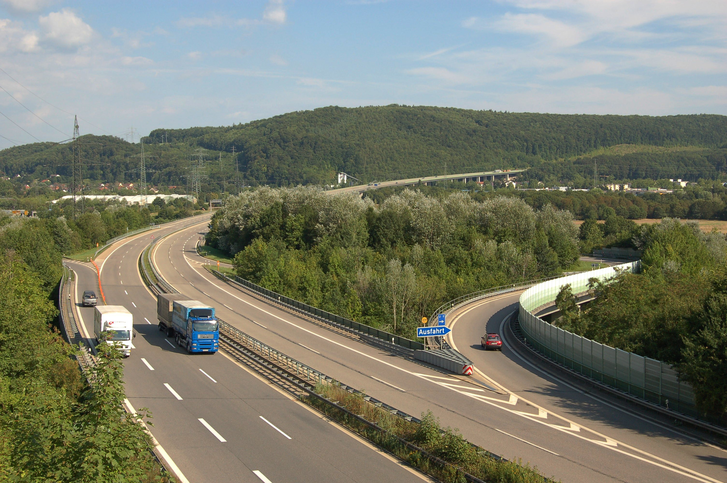 The A98 highway in Lörrach